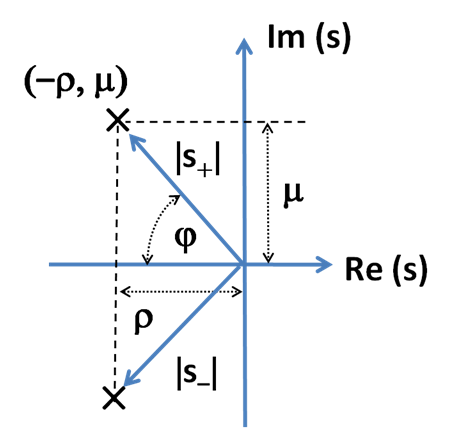 Conjugate poles in left s-plane